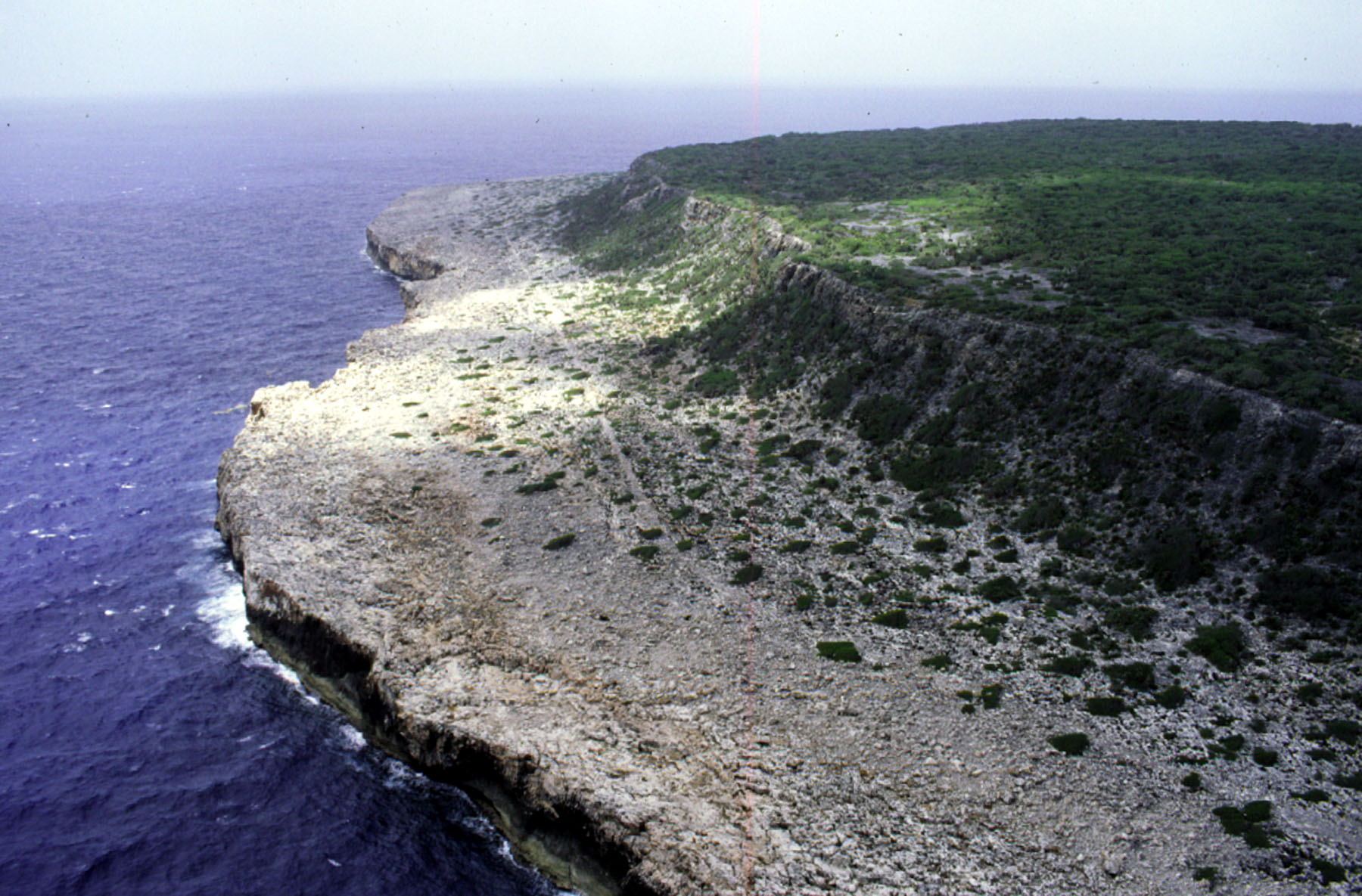 Aerial photo of the east coast of Navassa Island, looking south